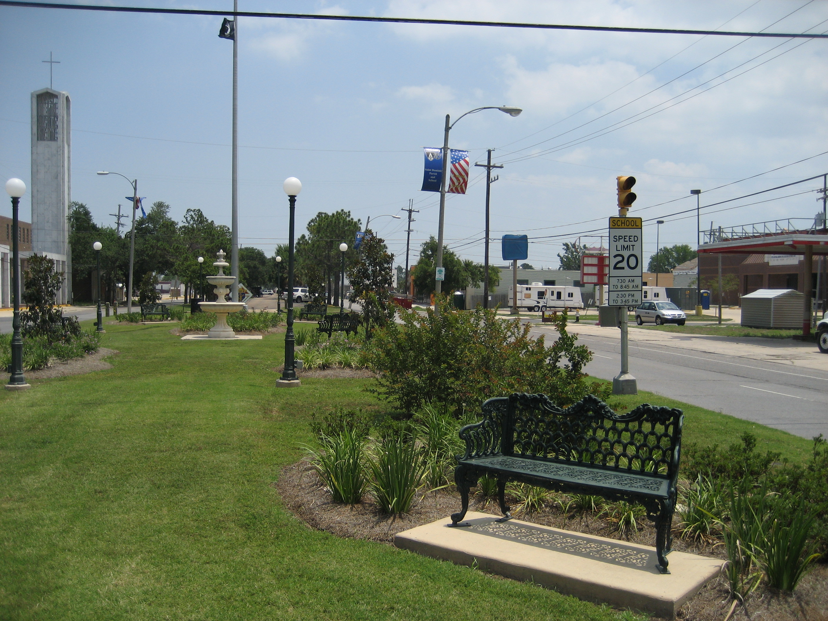 New Orleans: Lakeview neighborhood, which was badly flooded in the 2005 Hurricane Katrina levee failure disaster. Section of neutral ground on Harrison Avenue looking in good shape a year and a half later.